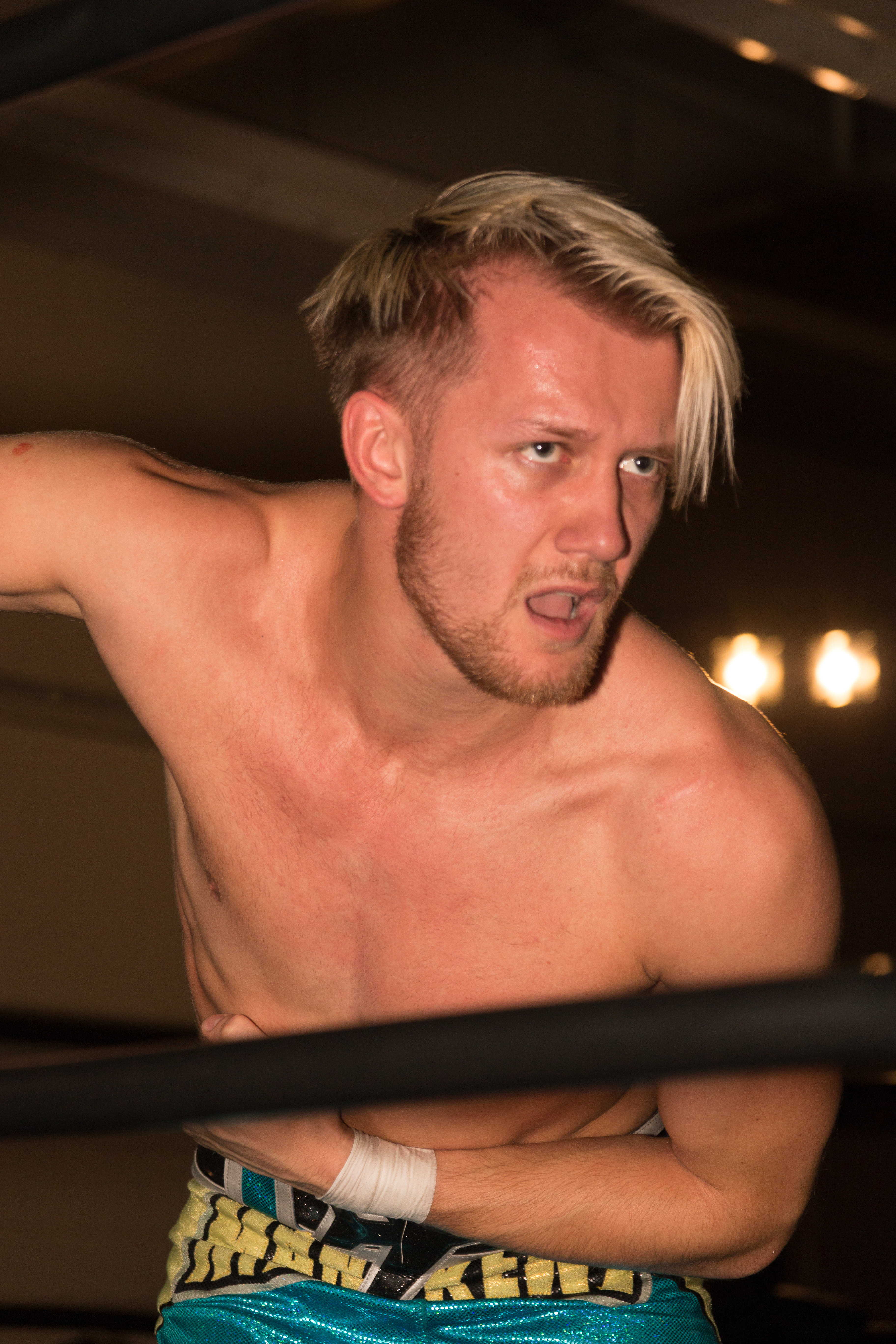 Independent wrestler Mark Andrews (aka Mandrews) in the ring at a Smash Wrestling show in Etobicoke, ON